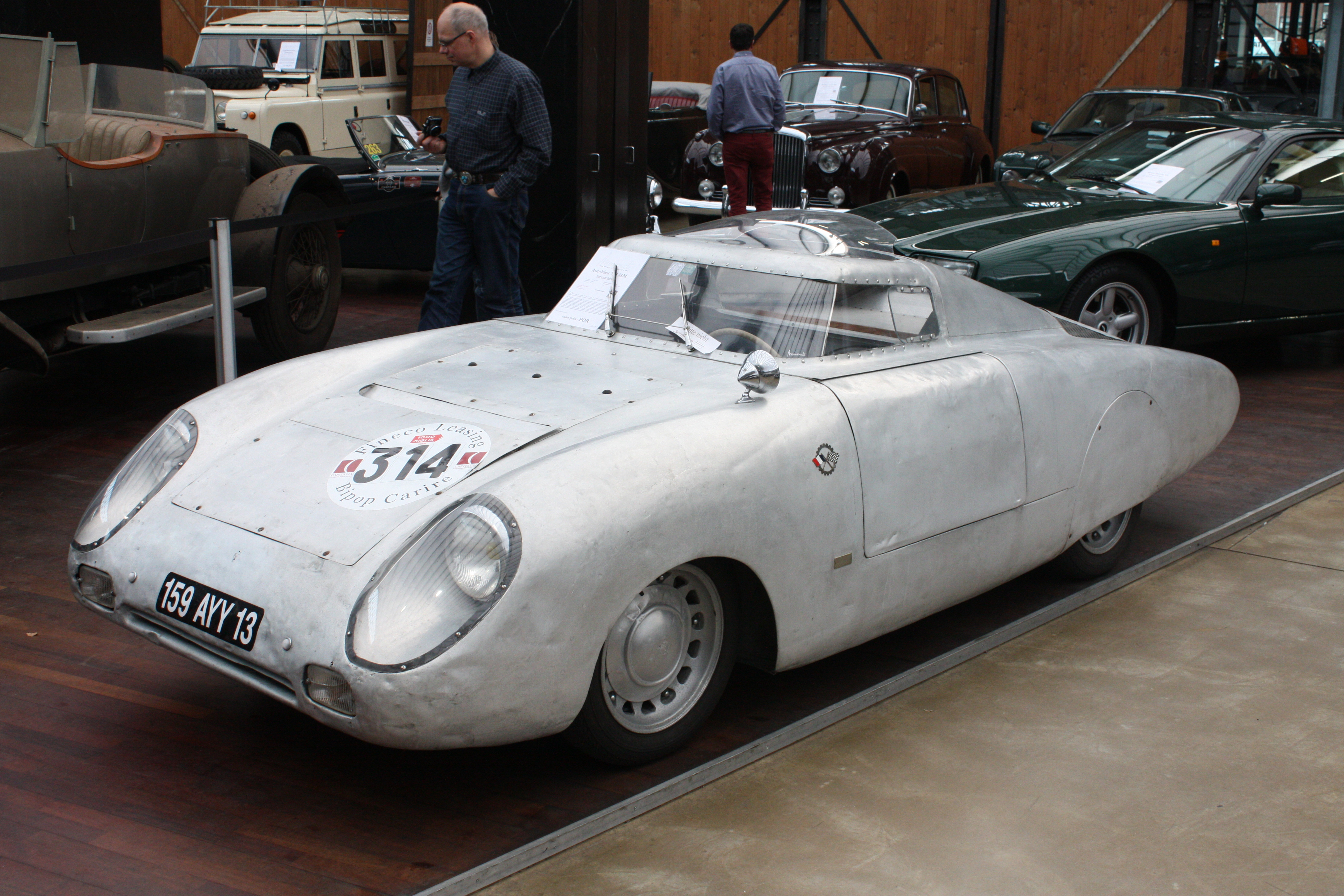 Autobleu 750 MM, raced at Mille Miglia 1954/55, seen at Classic Remise, Duesseldorf, Germany